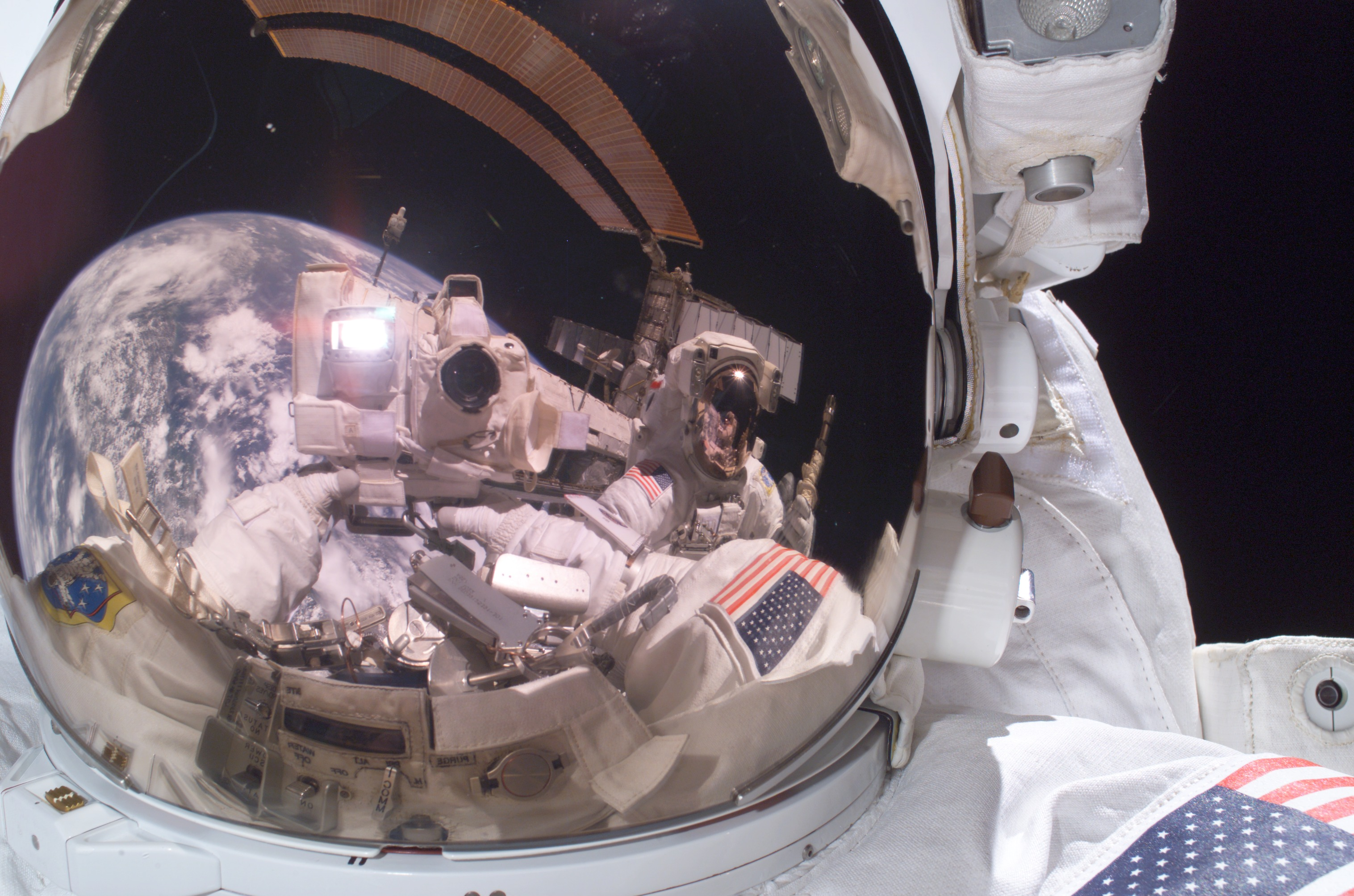 A self-portrait of astronaut Michael E. Fossum taken on July 8, en:2006. Fossum, who was taking part in extra-vehicular activity, also captured fellow astronaut Piers Sellers, the International Space Station, and Earth in his picture.